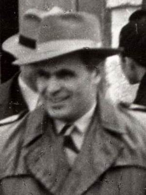 Todor Jovanović is a politician